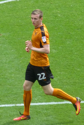 Jón Daði Böðvarsson playing for Wolverhampton Wanderers.